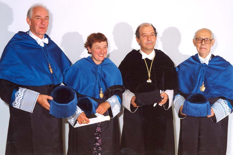 Peter David Townsend (left), Lynn Margulis and Eugenio Morales Agacino on their honorary degree act at UAM (1998). Black-dressed, vice-chancellor Raúl Villar.